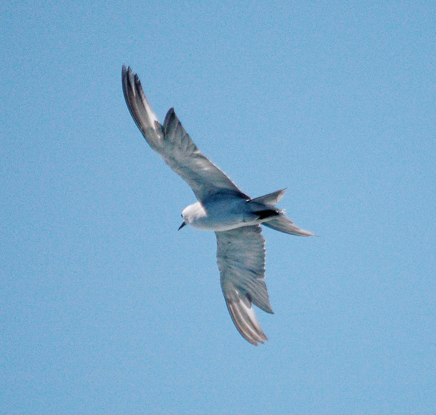 Grey Noddy (Anous albivitta) flight, Mokohinau Islands, New Zealand